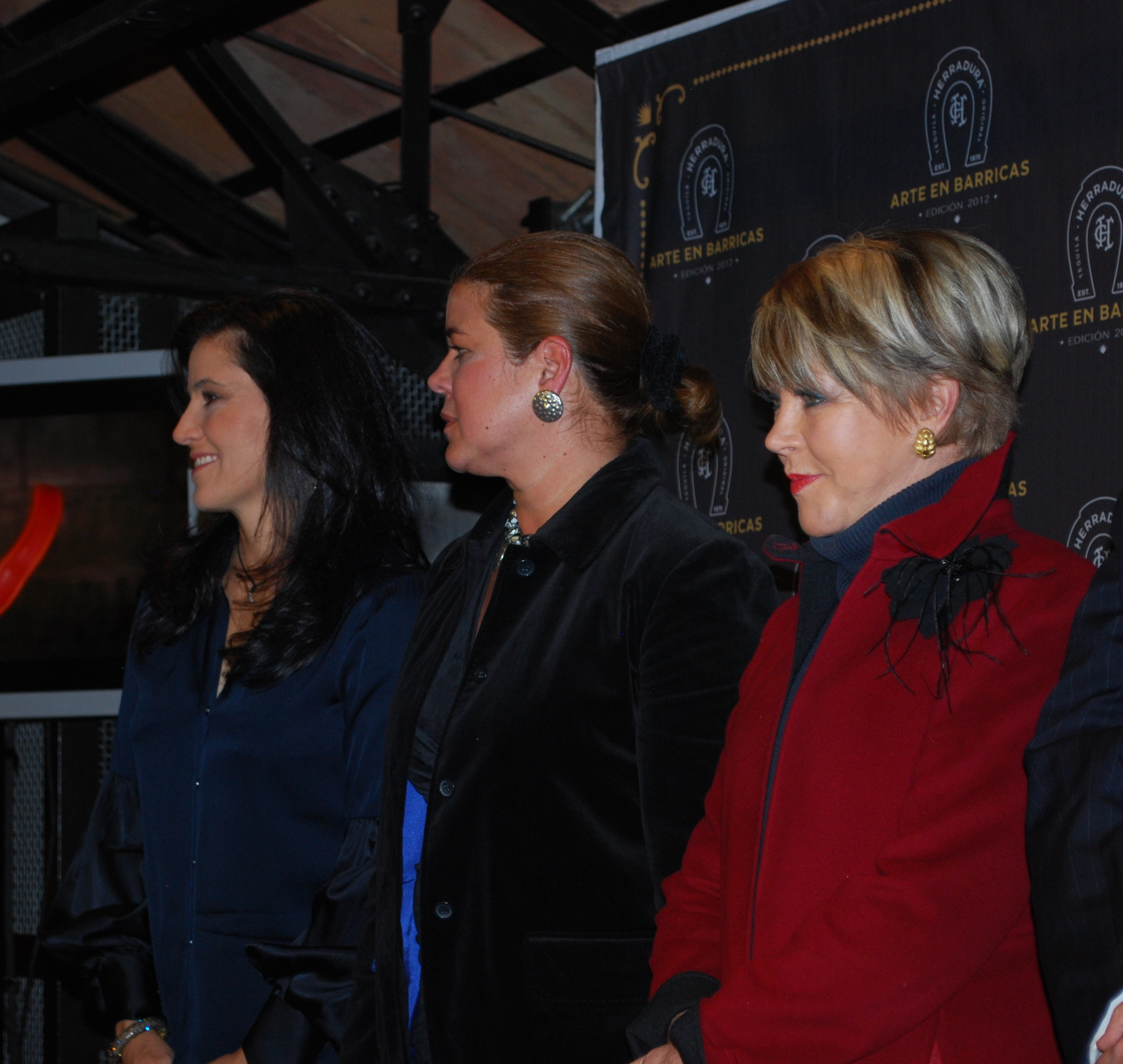 Lolita Ayala Sona Santos and Alicia Lebrije at the Arte en Barricas event of Herradura at the Centro Cultural Indianilla in Colonia Doctores, Mexico City